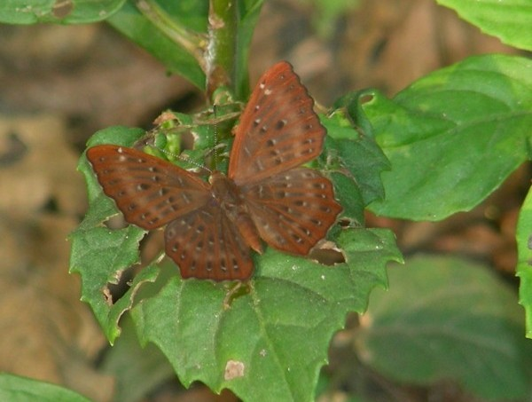 Punchinello Zemeros flegyas Family Riodinidae, Lepidoptera Image taken in Salugarah reserve forest, near River Teesta, Siliguri district, North Bengal, Dooars, India in December 2006. Self-work. AshLin 13:39, 7 January 2007 (UTC)